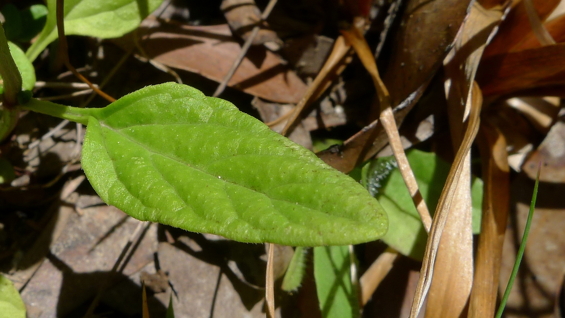 Cut-leaf Self-heal, Prunella laciniata, leaf about 28 mm long. A weed of moist and shaded areas. Dharawal National Park, NSW Australia, January 2014.